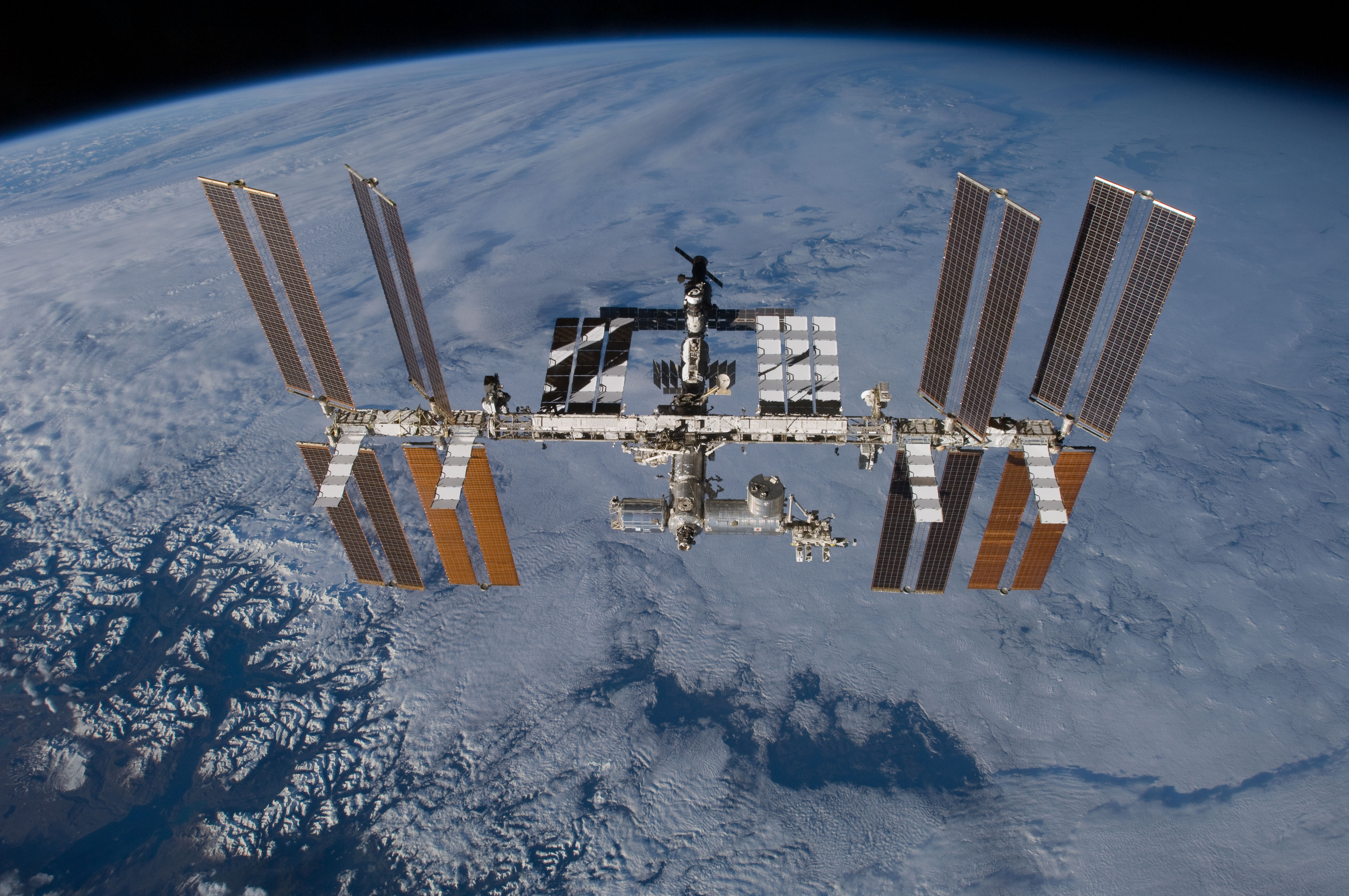 Set against the background of a cloud covered Earth, the International Space Station is featured in this image photographed by an STS-129 crew member on Atlantis soon after the station and shuttle began their post-undocking relative separation. Undocking of the two spacecraft occurred at 3:53 a.m. (CST) on Nov. 25, 2009.